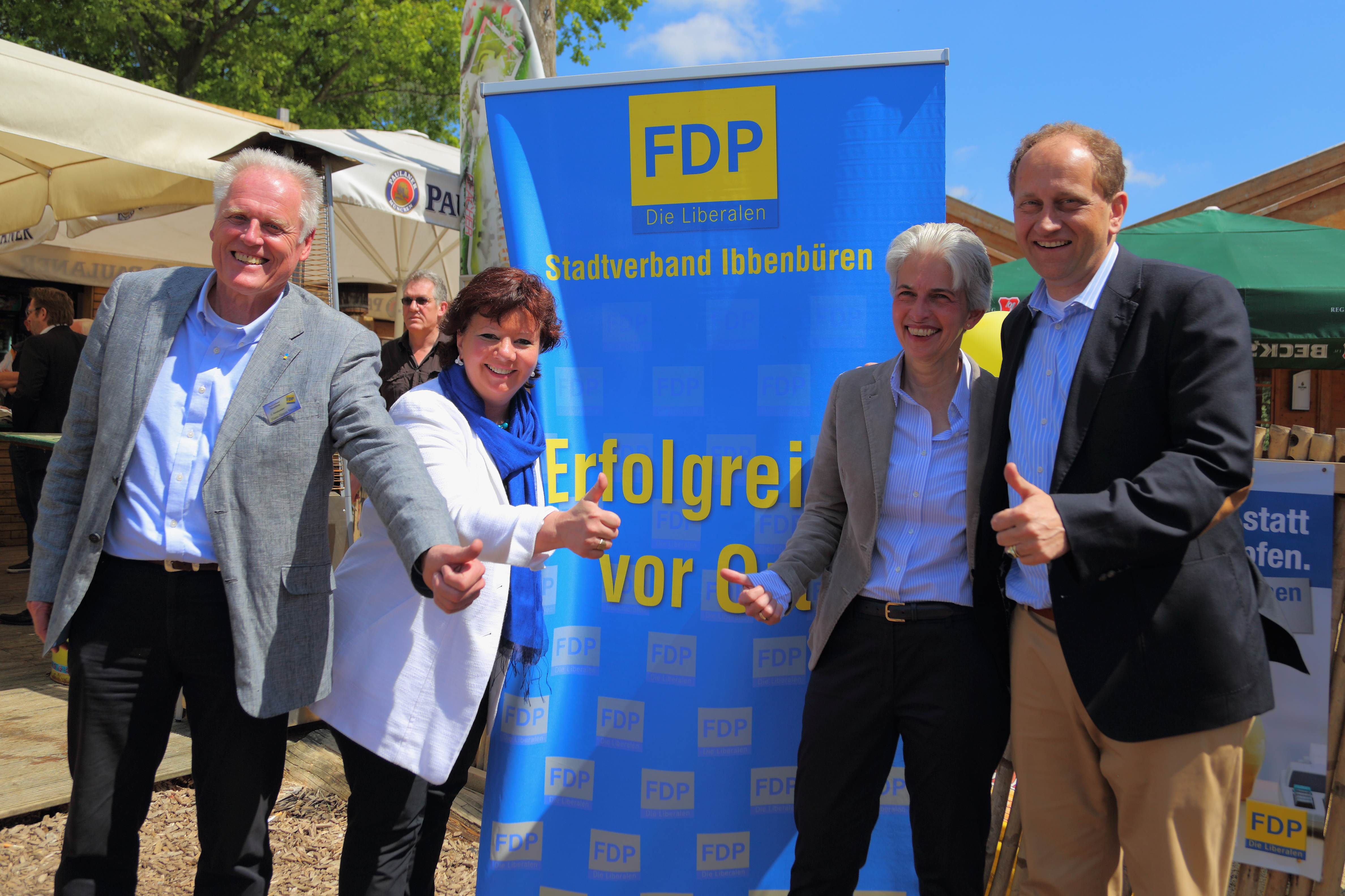 The FDP politicians (left to right) Hans-Jürgen Streich, Claudia Bögel-Hoyer, Dr. Marie-Agnes Strack-Zimmermann and Alexander Graf Lambsdorff at the FDP-Kreisfete 2014 in Ibbenbüren, Kreis Steinfurt, North Rhine-Westphalia, Germany.